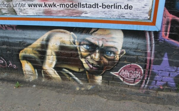 A graffiti art depiction of Gollum on the East Side Gallery of the Berlin Wall.